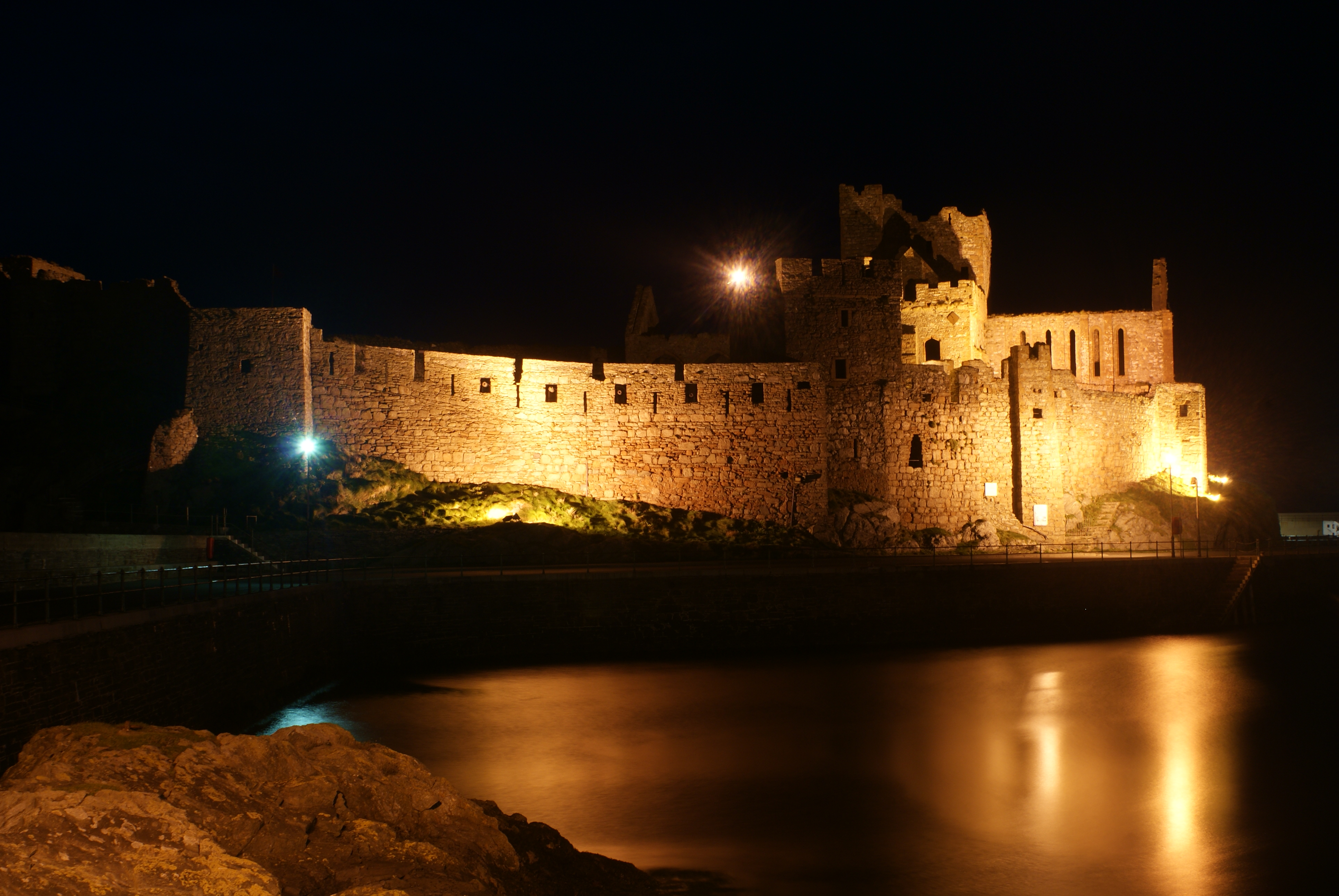 Peel Castle, Isle of Man, at night, taken from the harbour entrance and showing the floodlighting. The photograph was taken with a 30 second exposure.